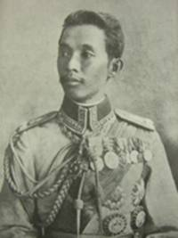 Field Marshal HRH Prince Chirapravati Voradej